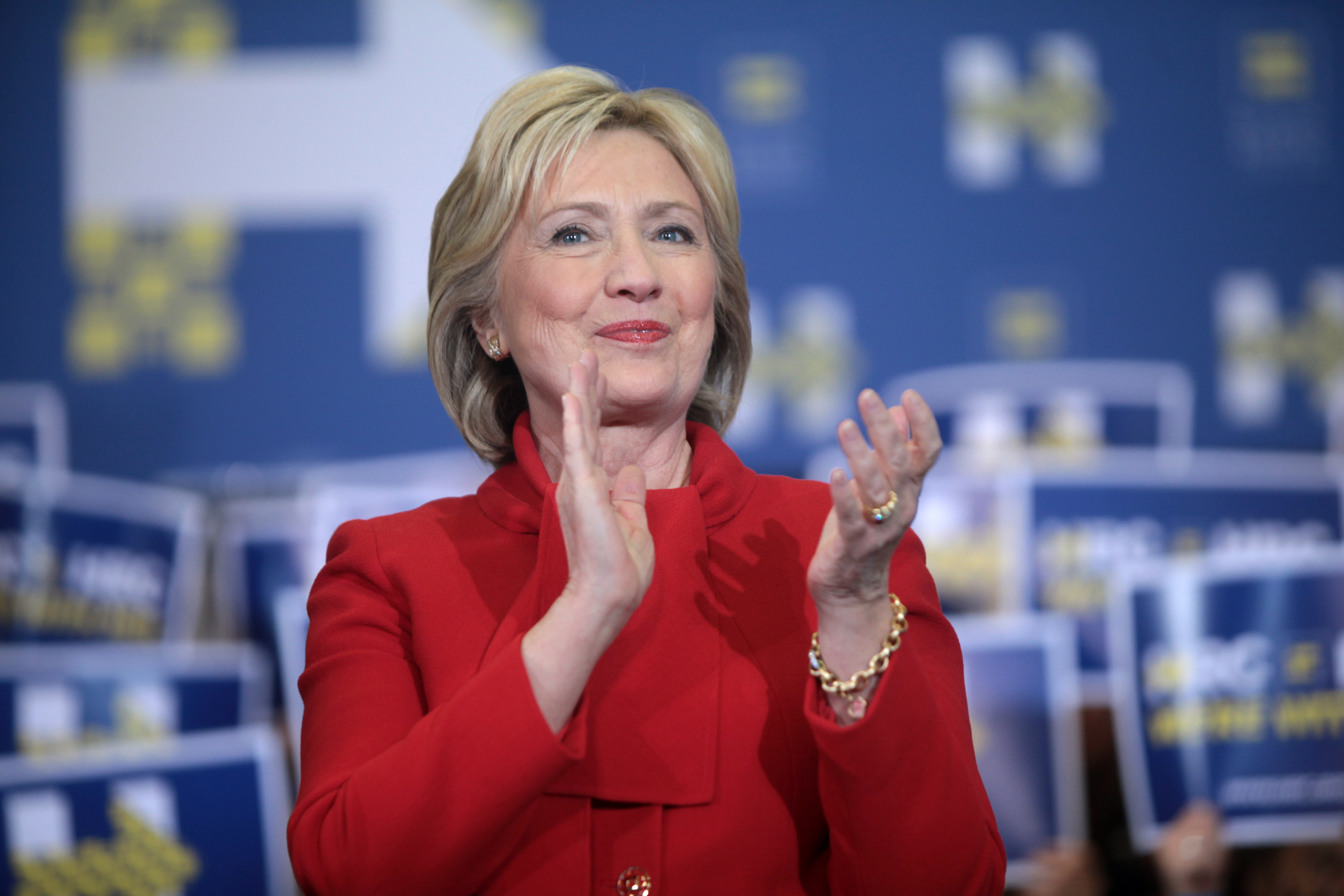 Former Secretary of State Hillary Clinton speaking with supporters at a "Get Out the Caucus" rally at Valley Southwoods Freshman High School in West Des Moines, Iowa.